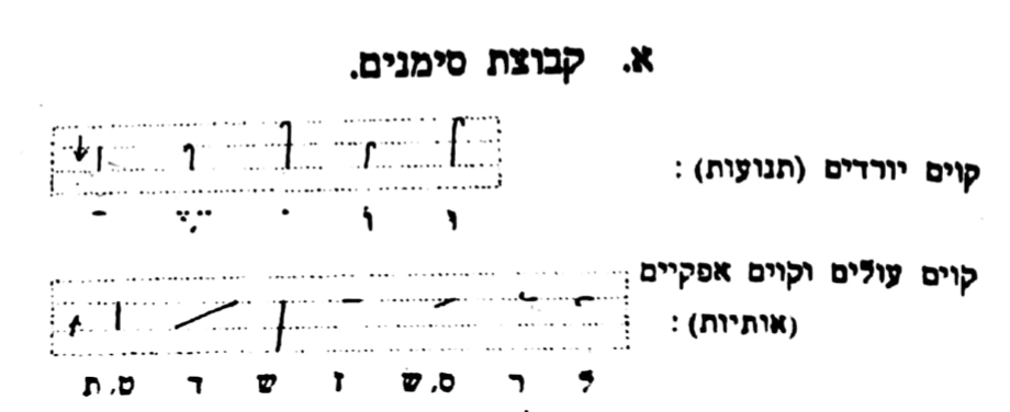 Hebrew symbols for Shorthand